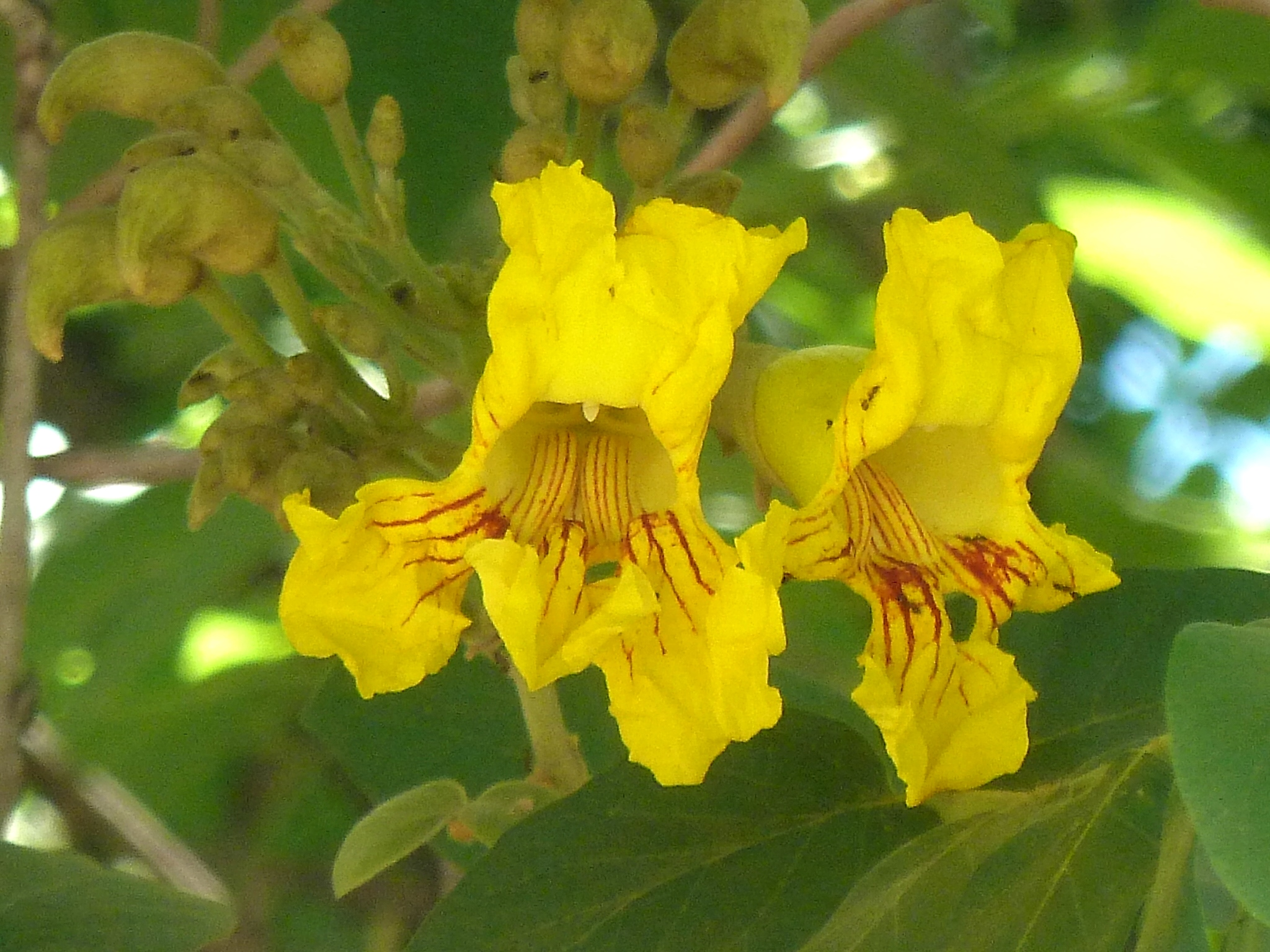 Inflorescence of a Golden bean tree in the Manie van der Schijff Botanical Garden, Pretoria